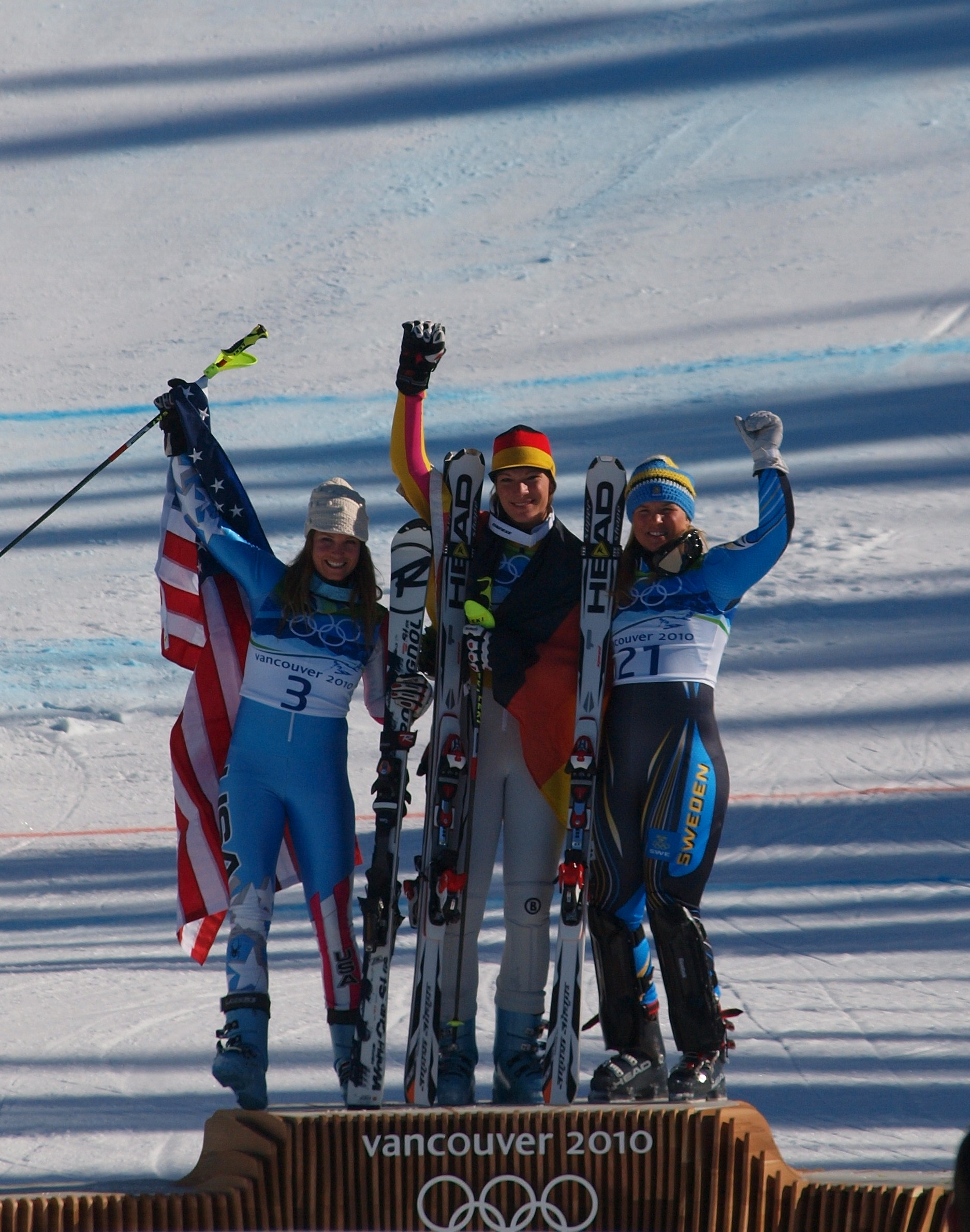 The 2010 Ladies Super-Combined Winners